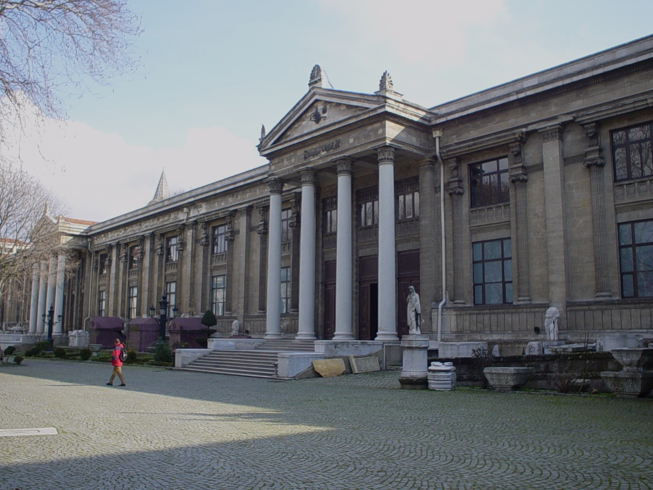 Istanbul Archaeology Museum